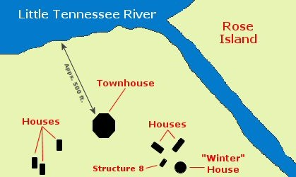 The position of the 8 structures excavated at the Mialoquo site in Monroe County, Tennessee, in the southeastern United States. The Mialoquo site was located just south of the Little Tennessee River's Island Creek confluence, and probably included part of the adjacent Rose Island. This map is NOT drawn to exact scale. It should also be noted that these structures probably represent only a fraction of the structures that existed at Mialoquo in the 18th century. This map is based on the excavation diagrams in Russ and Chapman, Archaeological Investigations at the Eighteenth Century Overhill Cherokee Town of Mialoquo (40MR3) (University of Tennessee Department of Anthropology, Report of Investigations 37, 1983), 3, 12-14.